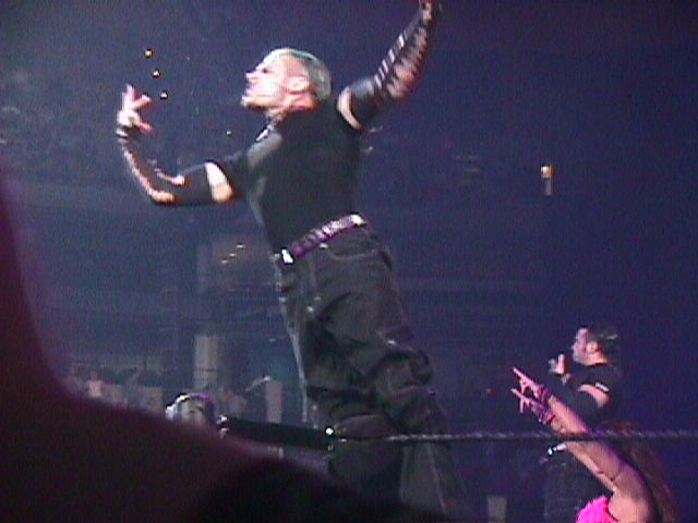 The Hardy Boys (Jeff and Matt) w/ Lita, at the WWF King of the Ring at the Fleet Center in Boston, MA in 2000 - WWE (thanks mch0707 for the info)